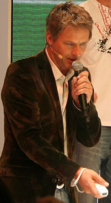 Jörg Pilawa at a news conference in Leipzig